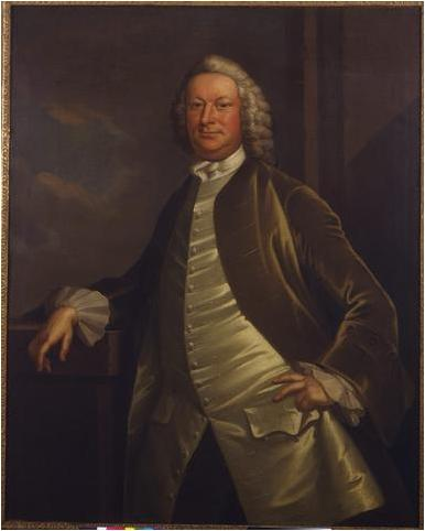 This is a portrait of William Walton, son of Captain William and Mary (Sandford) Walton. He followed his father into the shipping and mercantile business and became a prominent figure in the colony, serving as a member of the New York General Assembly (1751-58) and of the Governor's Council (1758-68). He was a member of the Board of Trade from 1758 until his death.